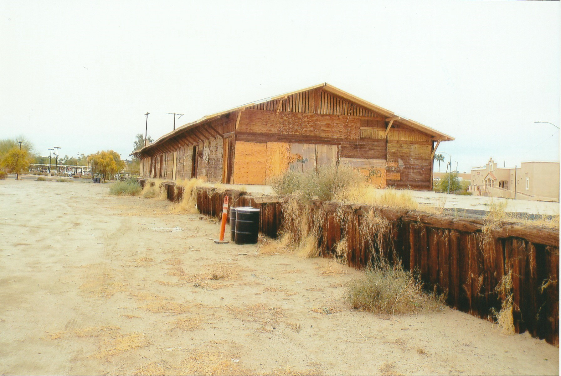 Southern Pacific Freight Depot - located at 430 Main Street was built in 1891 and listed in the National Register of Historic Places on April 24, 1987, reference #87000614.